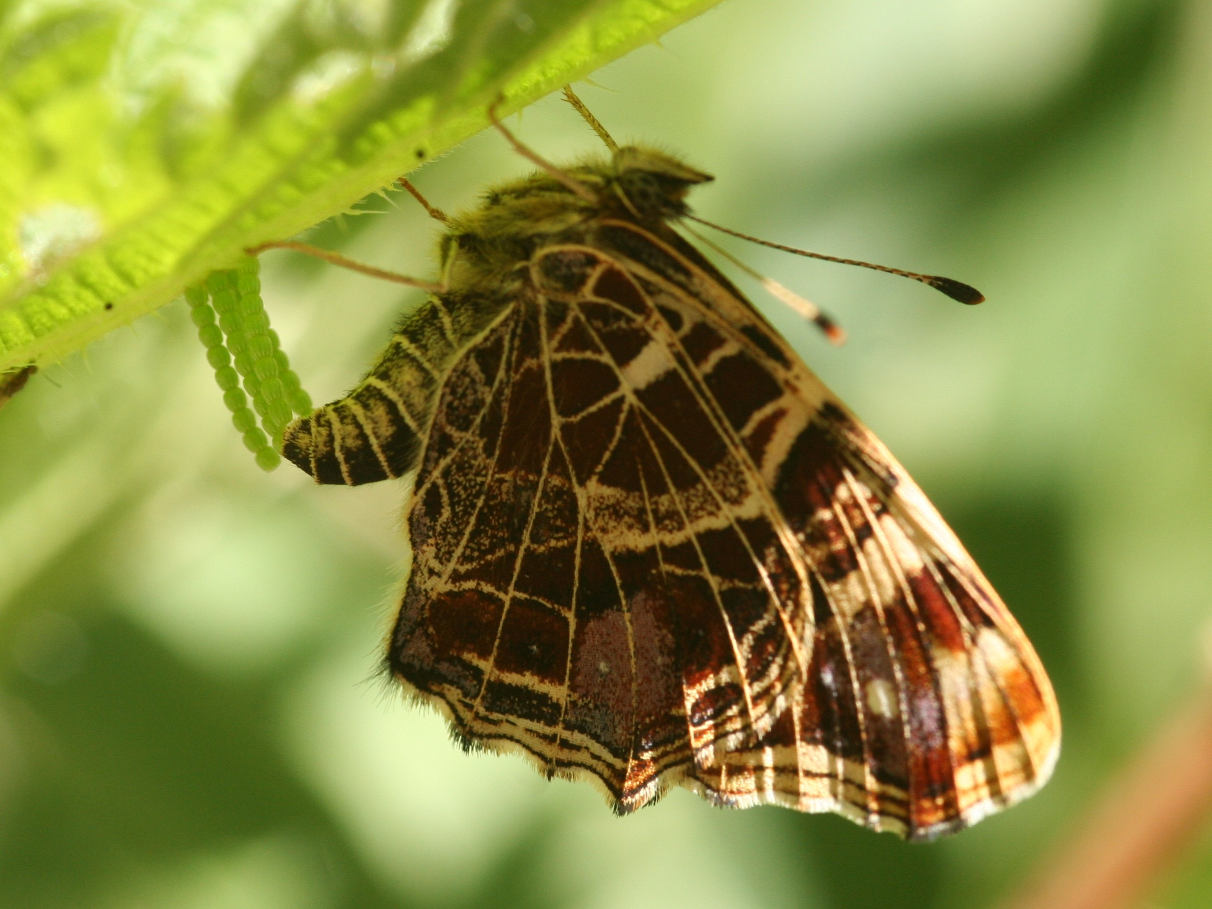 Map butterfly (Araschnia levana) laying eggs. Babenstubener Moor near Geretsried, Bavaria